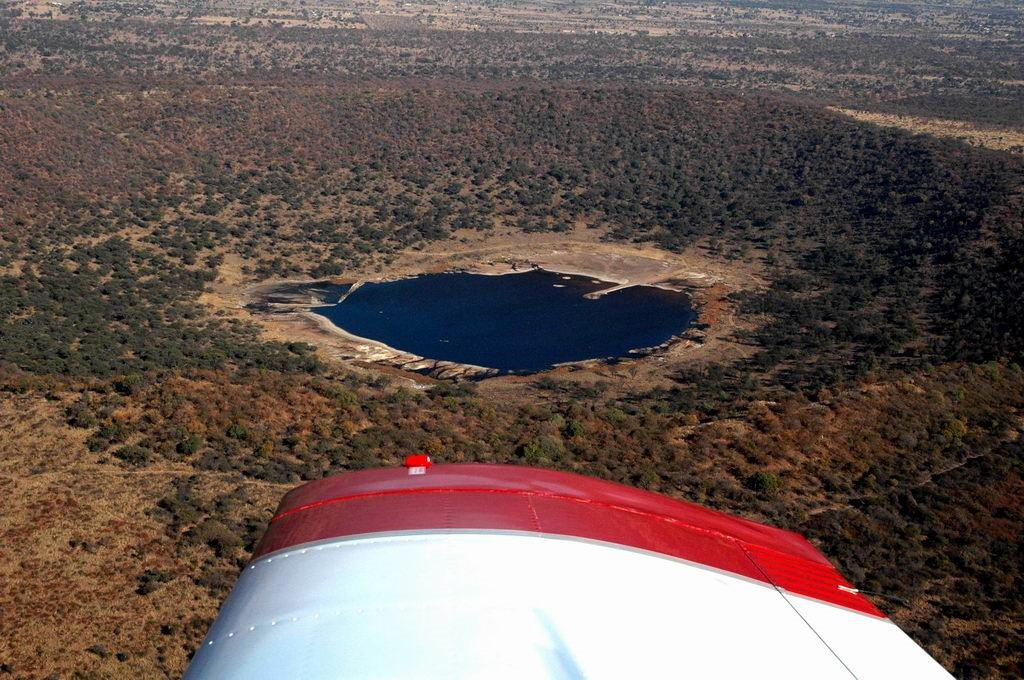 Meteorite Crater 39 km north of Pretoria